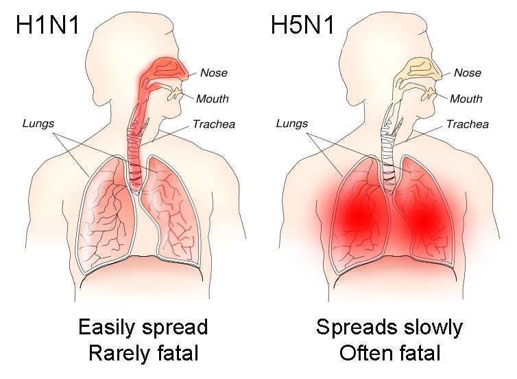 Different sites and outcomes of H1N1 versus H5N1 influenza infections. Based on Respiratory system.svg with annotations.